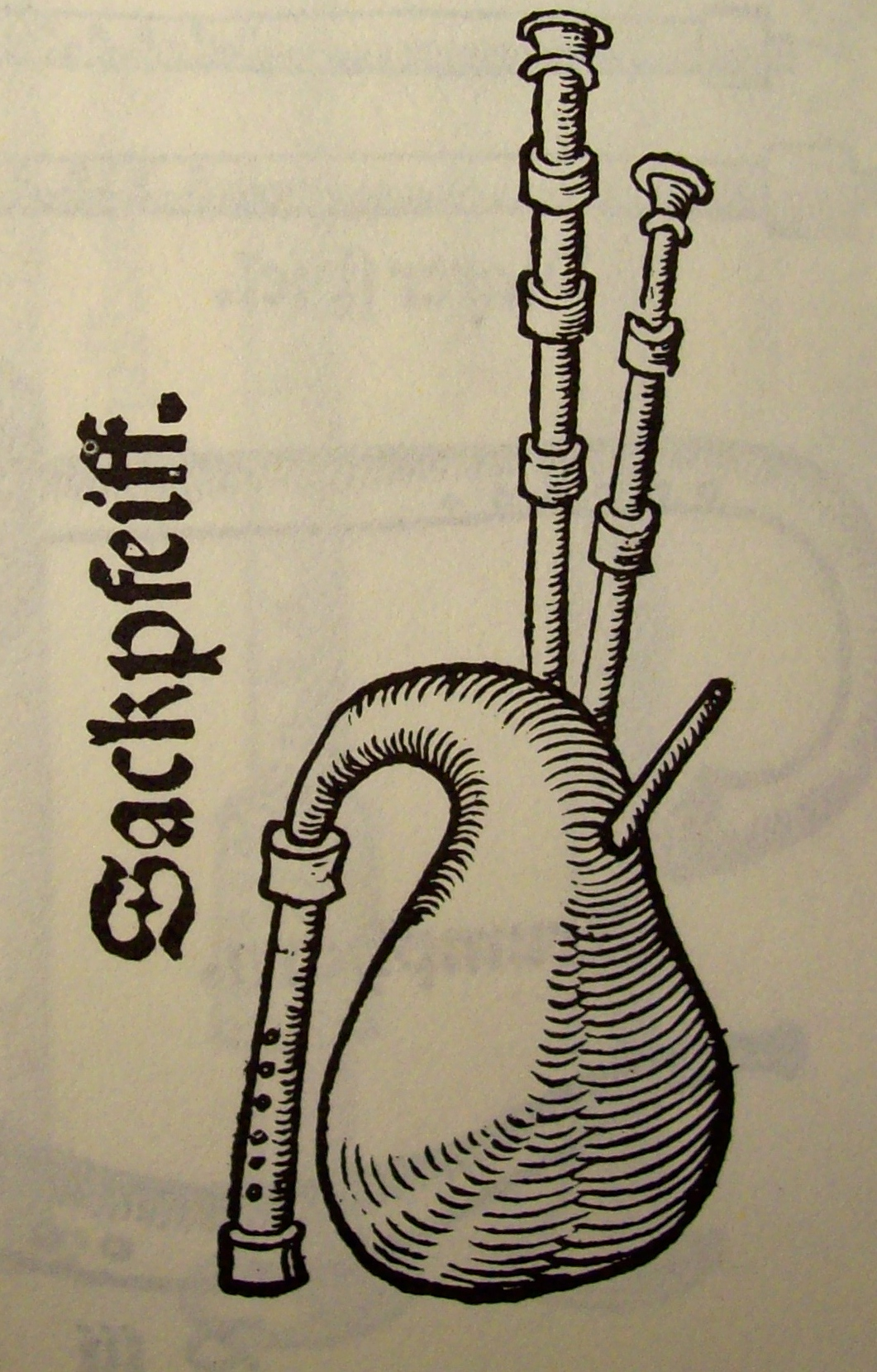 Martin Agricola: Musica Instrumentalis Deudsch 1529 Bagpipe